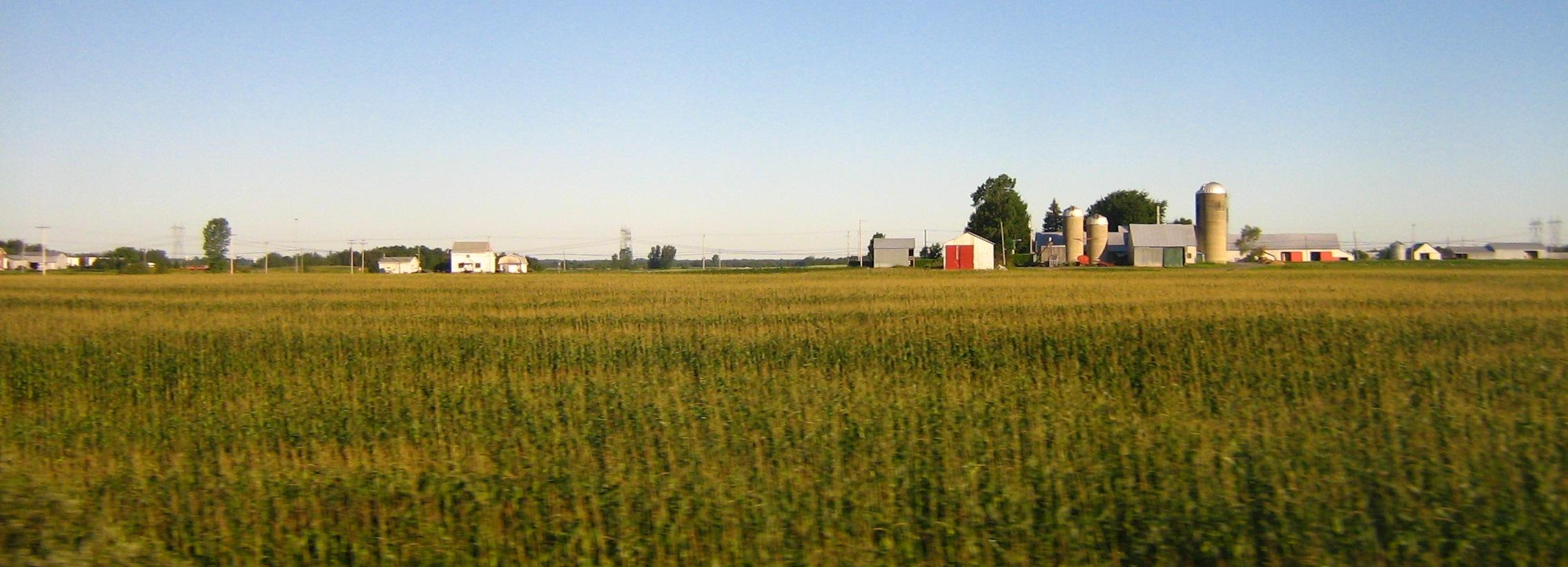 Taken on a train trip through the Centre-du-Quebec region - this was taken somewhere in the vicinity of Notre-Dame-du-Bon-Conseil. August 2006.